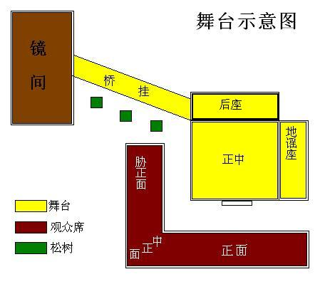 Noh stage map